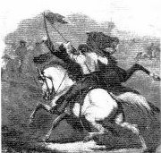 Illustration of a cavalry charge at the Battle of Yellow Tavern during the American Civil War. The photo, appearing in William J. Bradley's The Civil War: Fort Sumter to Appomatox, I believe falls under fair use as it is a historically significant photo of a famous individual and used for informational purposes.